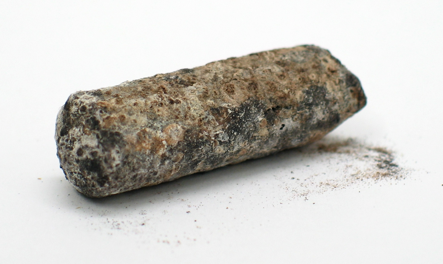 Heavily corroded thallium metal rod. Length ca. 5cm. Image taken by User:Dschwen on January 5th 2006.